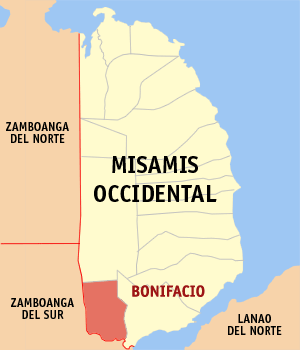 Map of the Misamis Occidental showing the location of Bonifacio